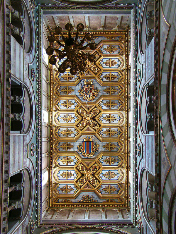 Cathedral of Santa Maria Assunta, Altamura, Apulia, Italy.